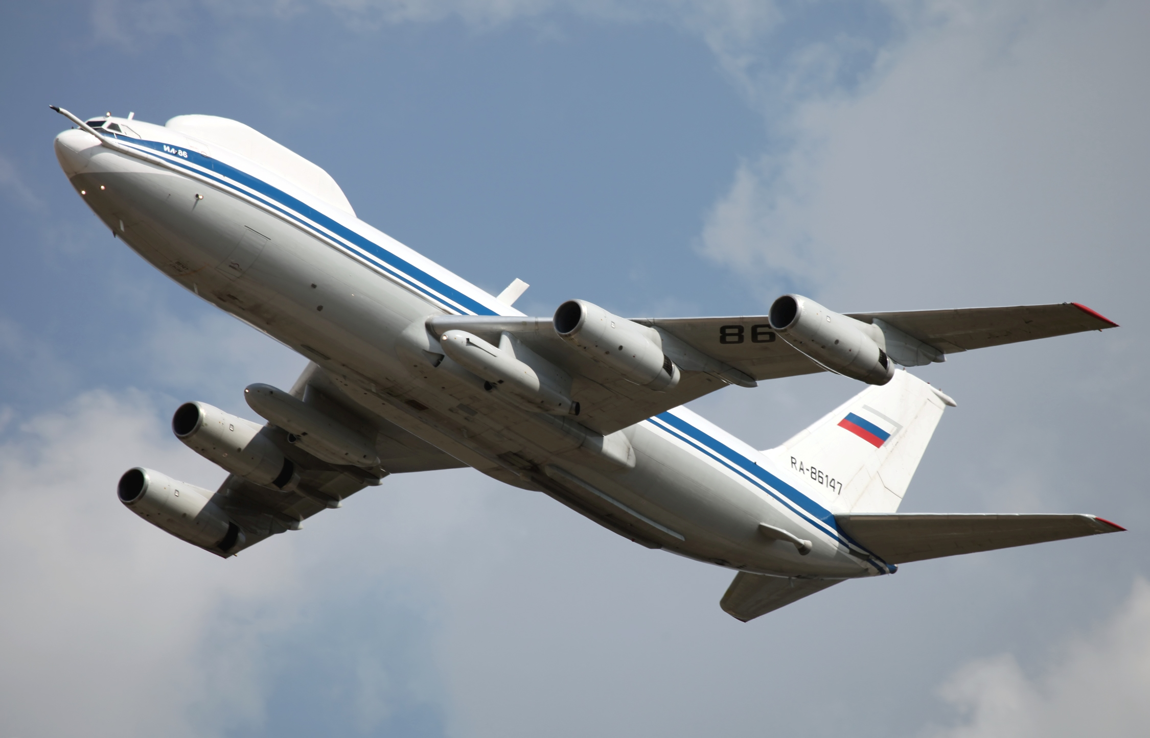 100th Anniversary of the Russian Air Force - Airborne command and control aircraft IL-86VKP.